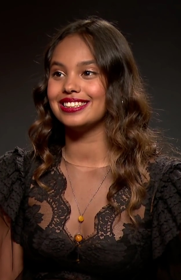 Alisha Boe in 2018 from 13 Reasons Why Cast Talk Season 2 Funniest Moments.